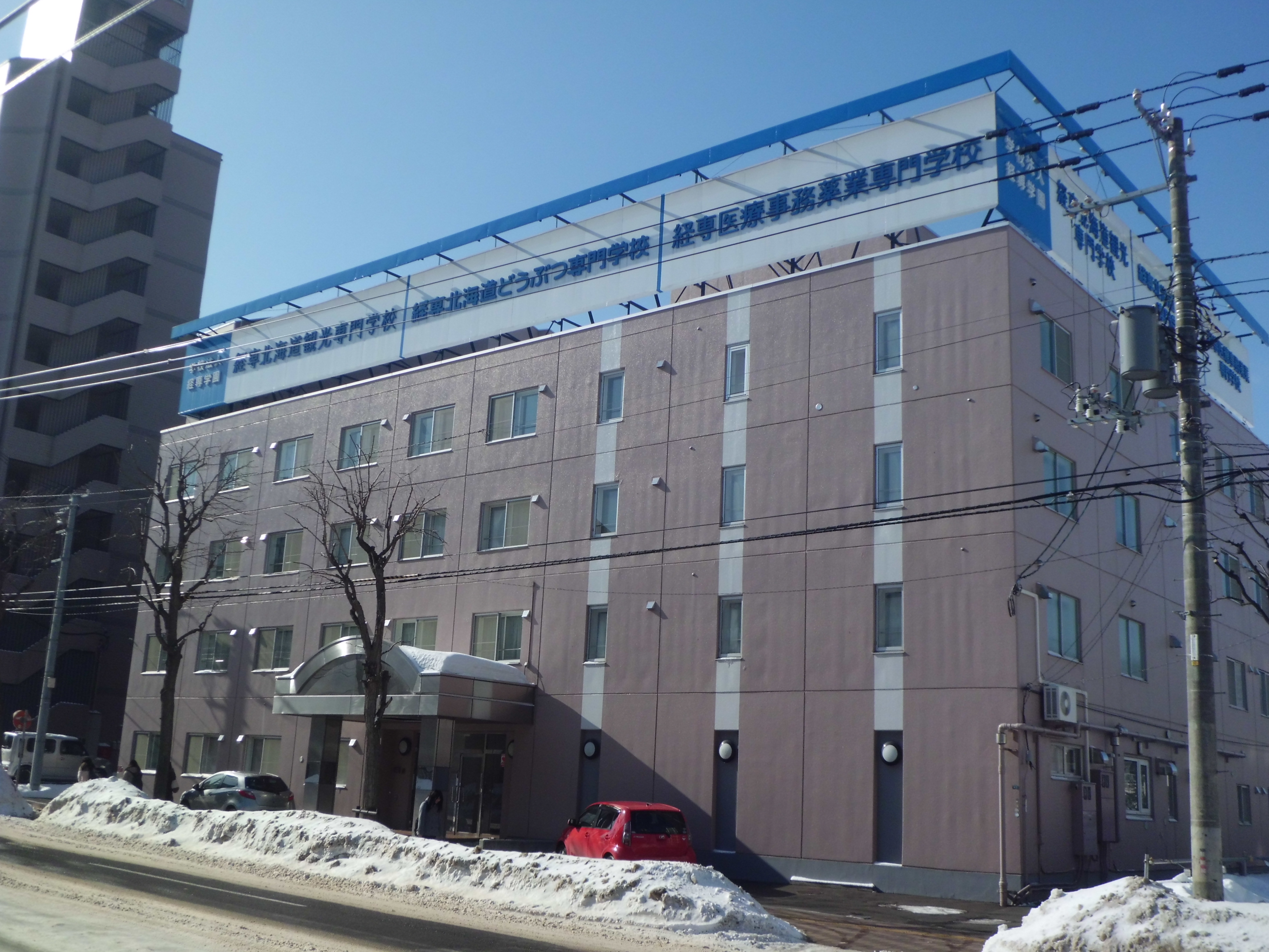 Hokkaido College of Travel Keisen, College of Medical Office Worker & Pharmaceutic Keisen, and Hokkaido Dobutsu College.